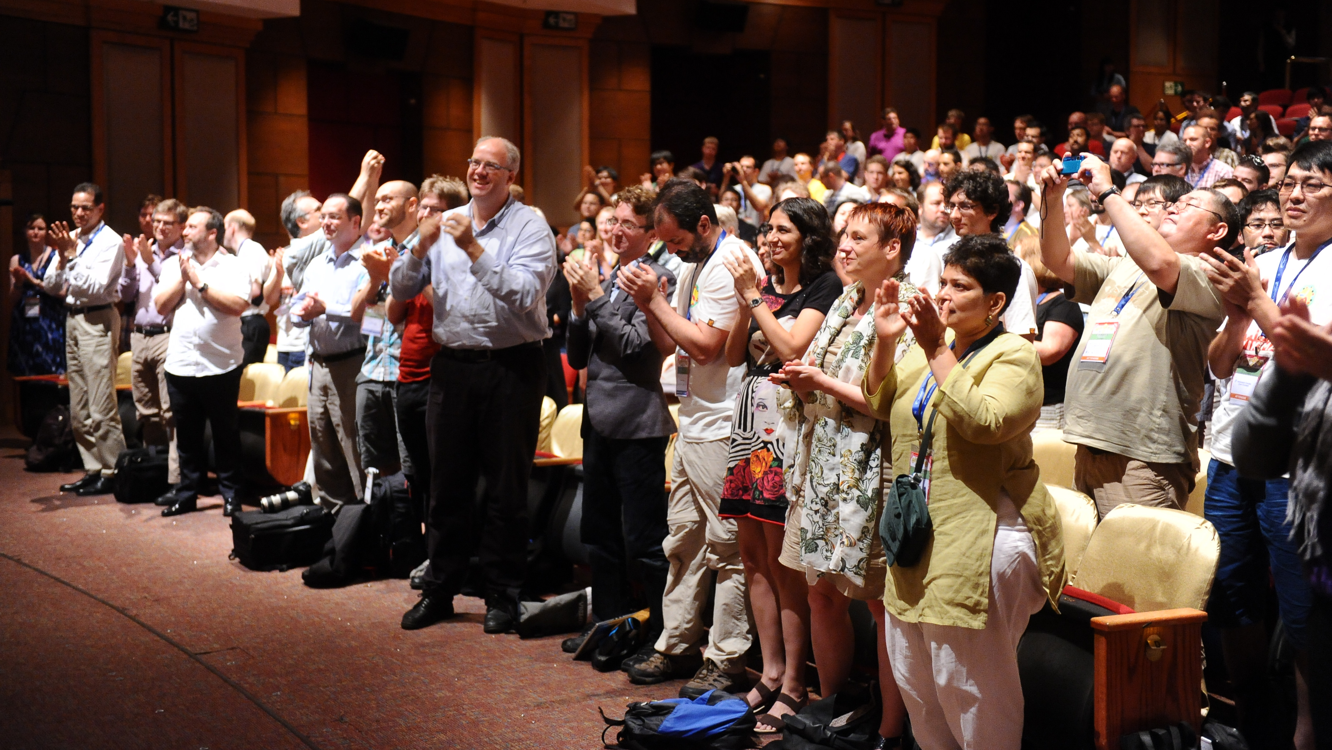 Standing ovation.